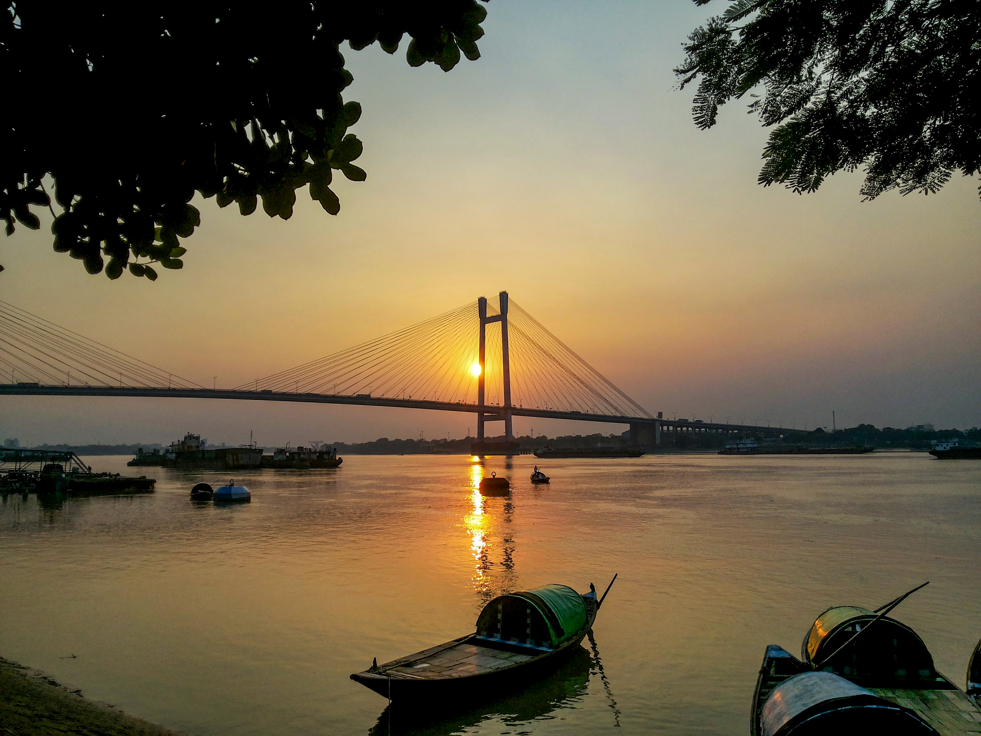 Kolkata's Sunset over Ganga